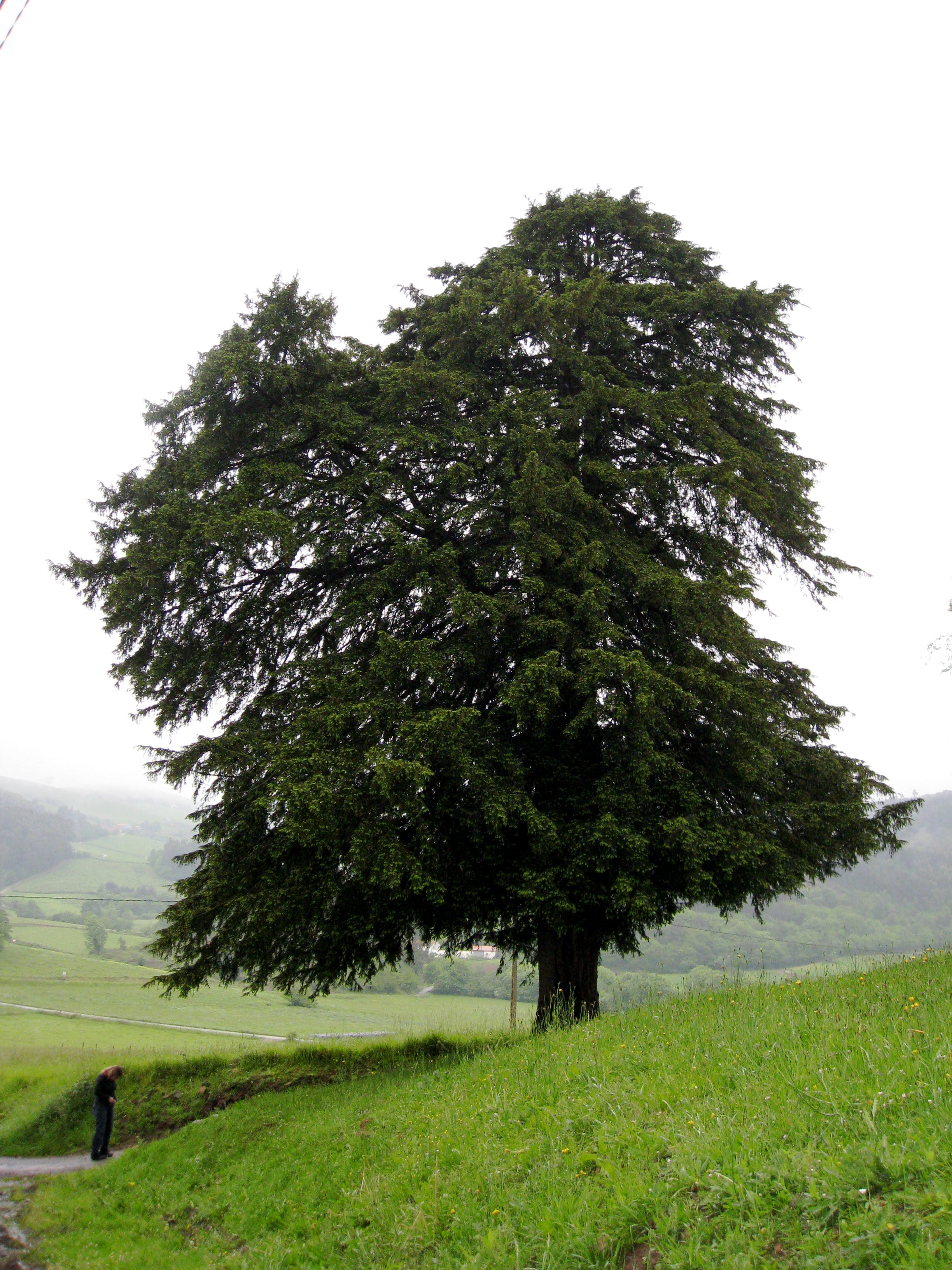 Taxus baccata in Arlós, Llanera, Asturias in Spain